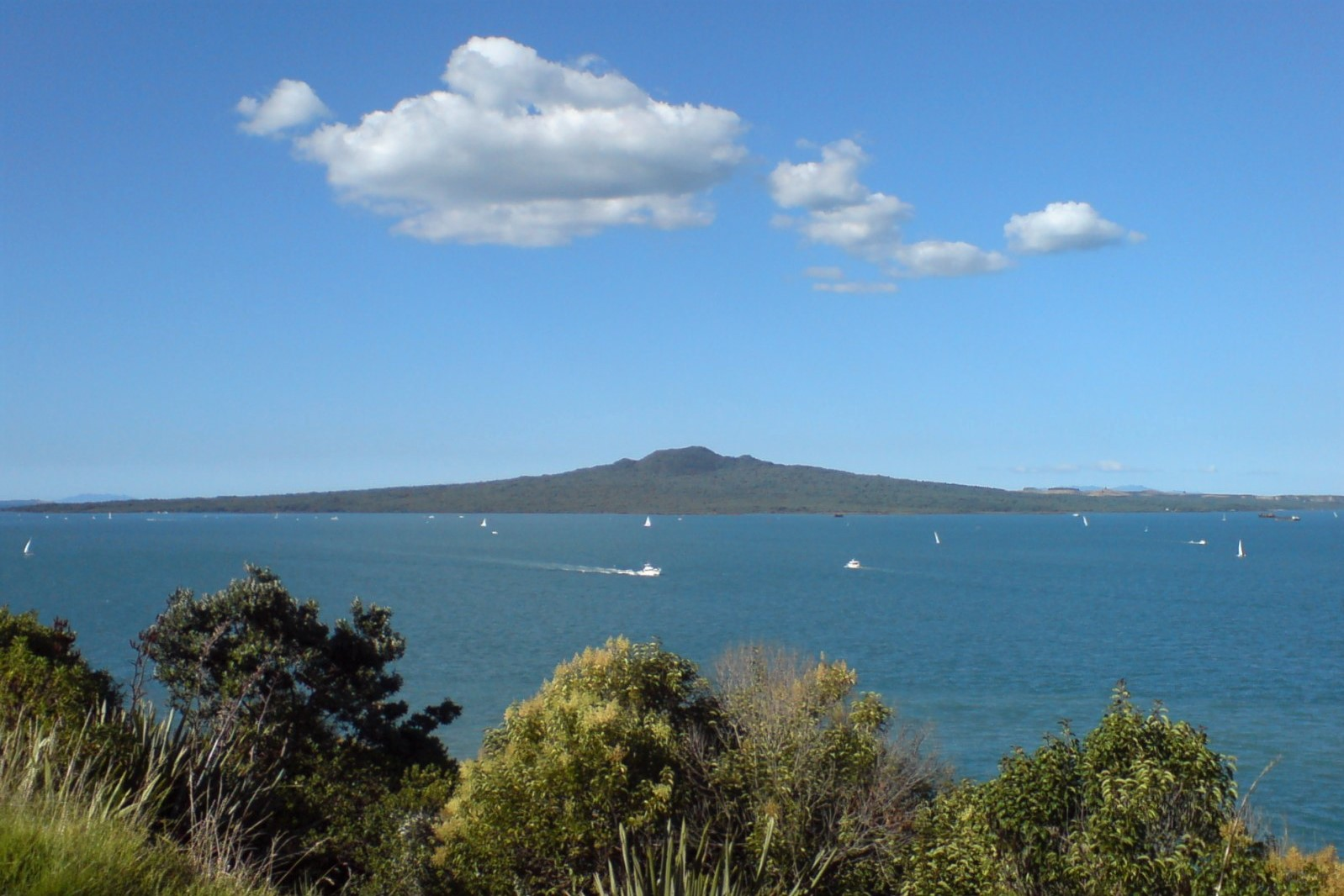 Rangitoto Island as seen from the path around North Head, in Auckland, New Zealand.